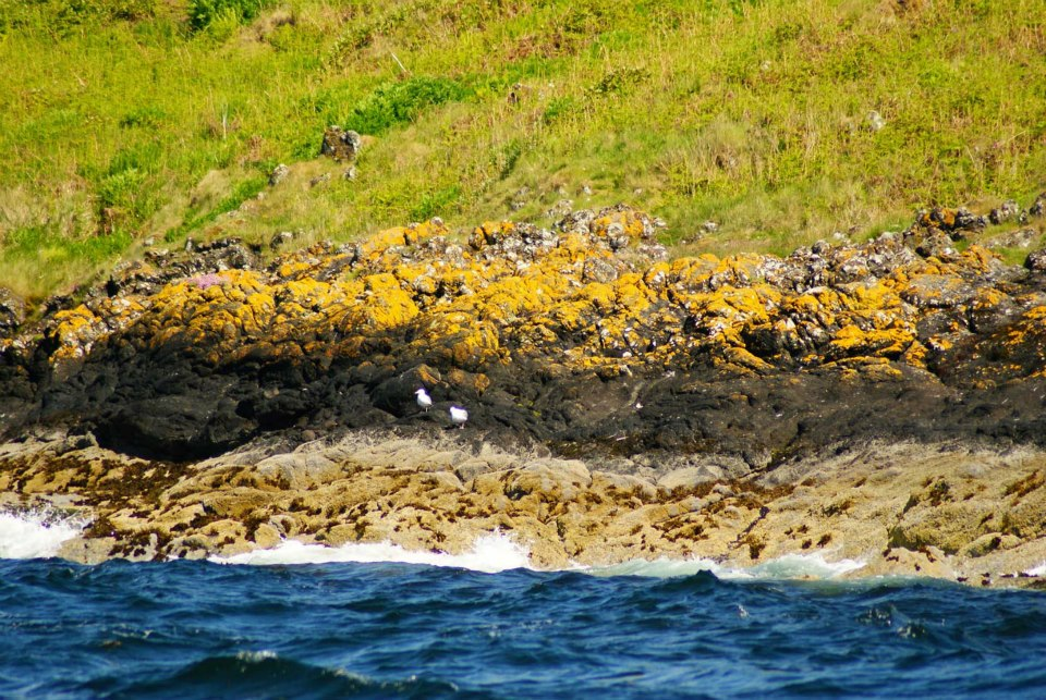 Photograph showing intertidal zonation on the island of Greater Cumbrae, Scotland.